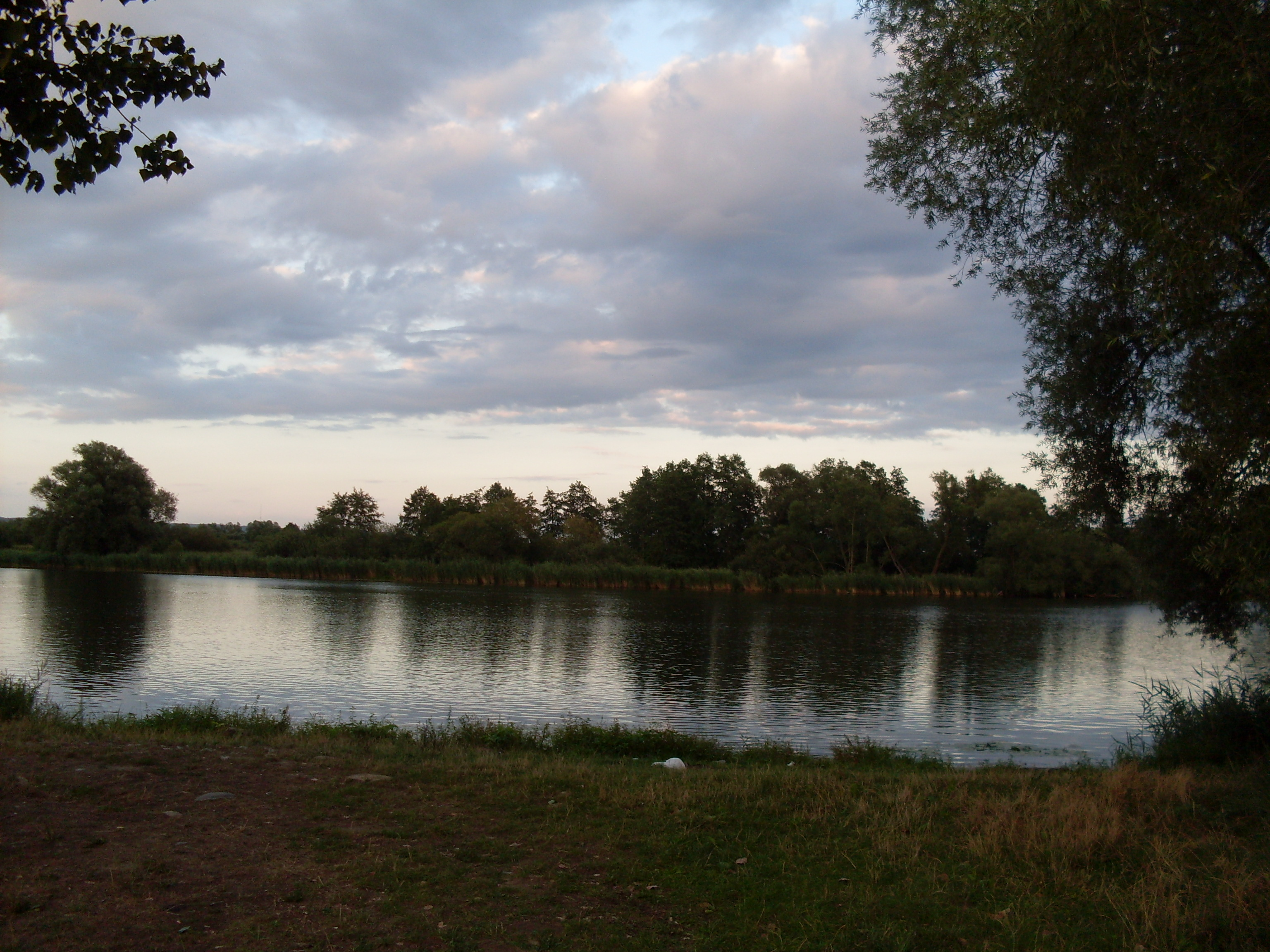 Oder River in Siadło Dolne, Police County